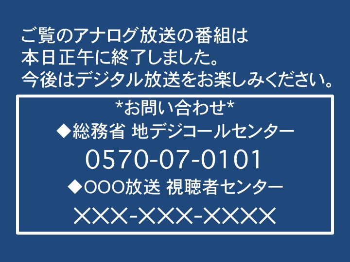 Analog television shut down in Japan on July 24, 2011.